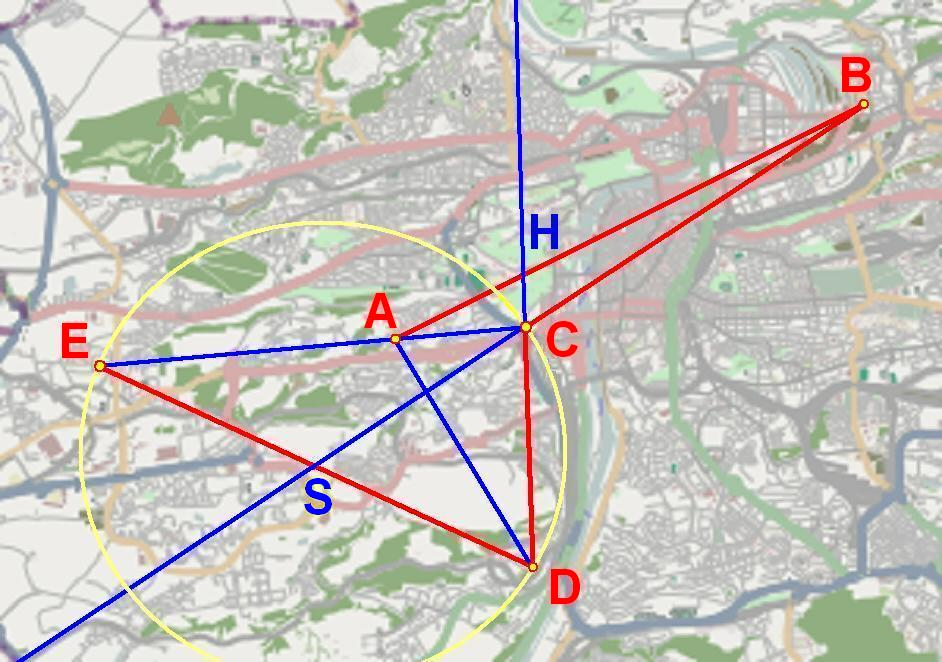 "Mensa gymnázium", eight-year grammar school (high school) for gifted children, founded by Mensa Czech Republic – location of the school (A → B → C → D → E) and Štefánik's Observatory (H) on the map of Prague. Background: OpenStreetMap image of map of Prague, 50°04′19″N 14°28′52″E / 50.072°N 14.481°E, from